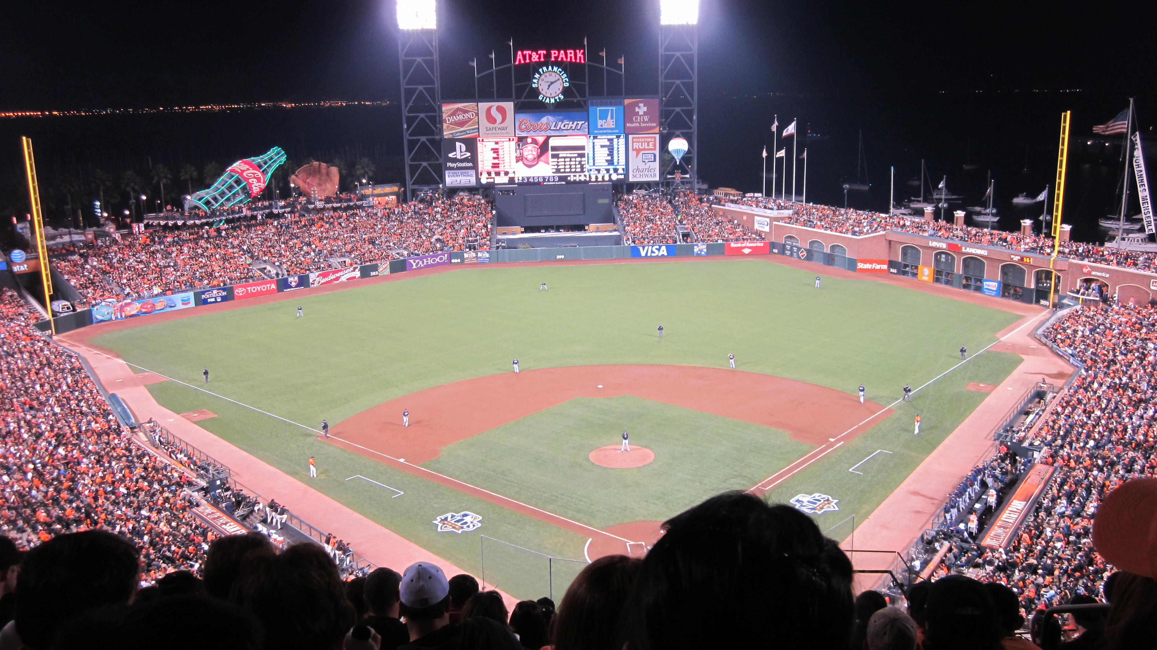 Game 2 of the National League Division Series between the Atlanta Braves and the San Francisco Giants at AT&T Park. The Braves won 5-4 in extra innings.